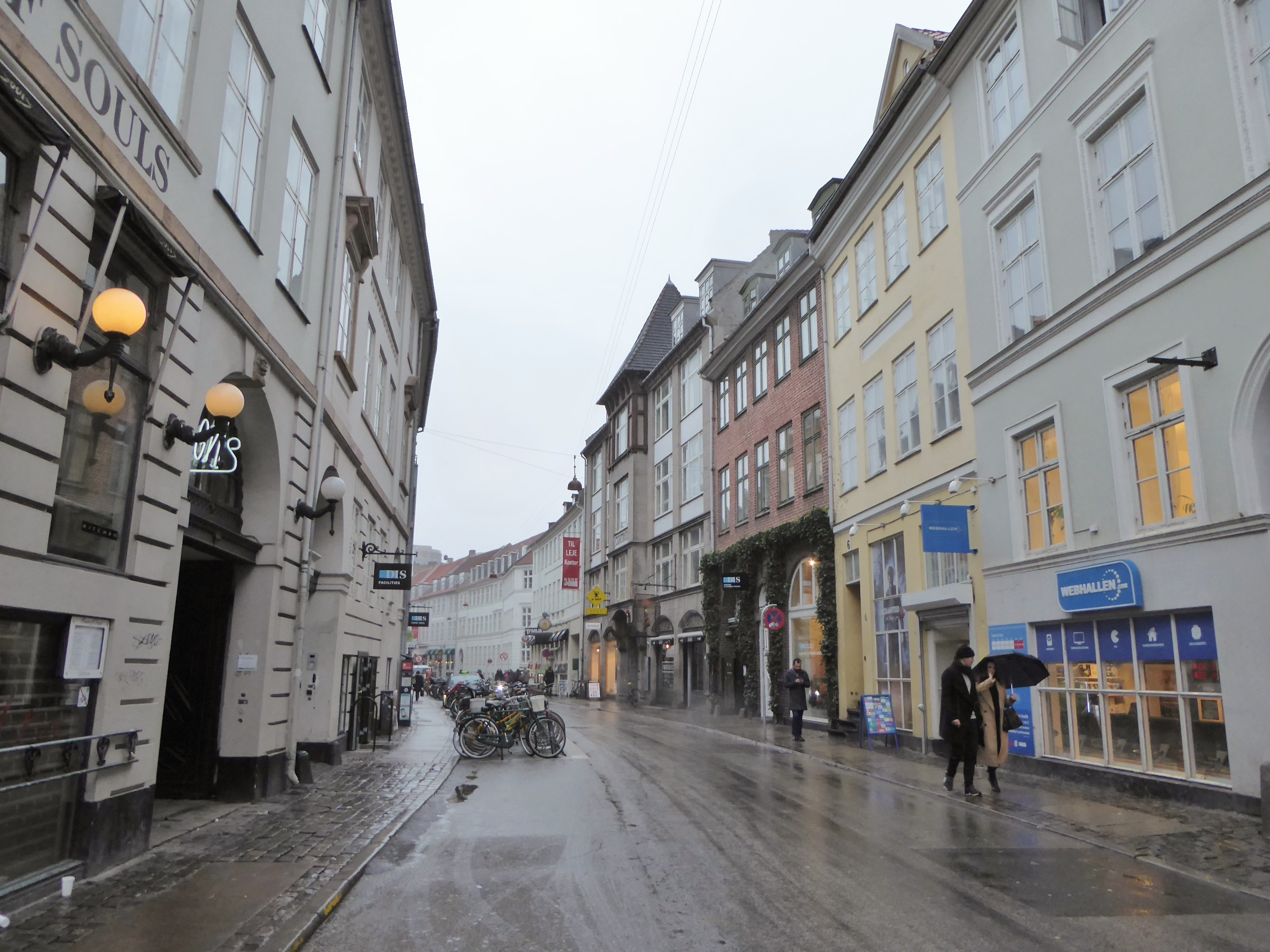 The street Vestergade in Indre By in Copenhagen.